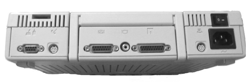 Back view of the Apple IIc Plus personal computer, circa 1988.